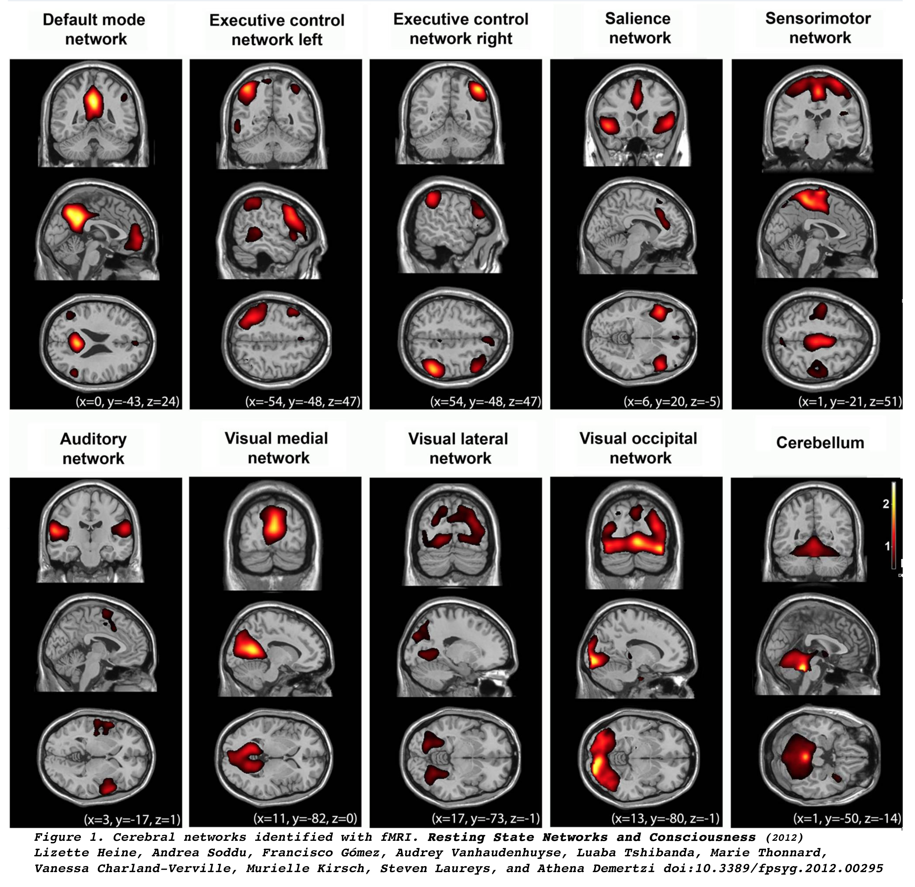 fMRI scan shows 10 large scale brain networks